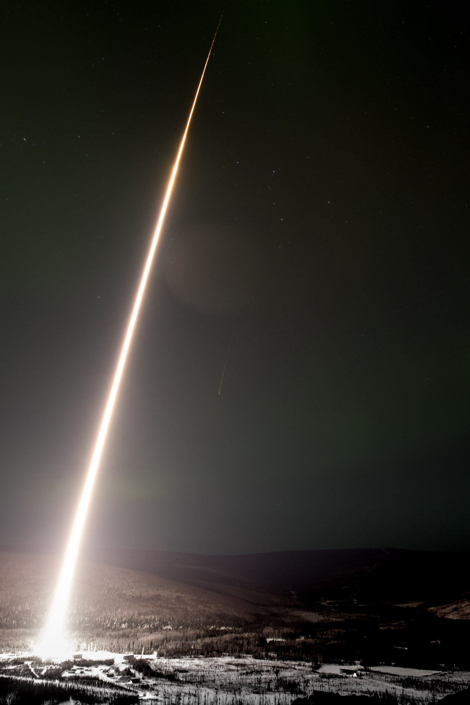 A Black Brant IX sounding rocket launches from the Poker Flat Research Range in Alaska at 5:14 a.m. EST, Feb. 22, 2017. This is the first of two launches planned in NASA's In Situ and Groundbased Low Altitude StudieS (ISINGLASS) mission to study the structures of auroras.